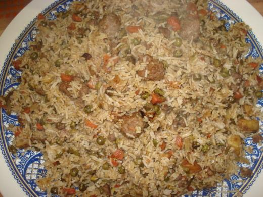 Biryani, the Iraqi is one of the most famous dish in Iraq, dating its origins to the cuisine Indian, but differ biryani Iraqi fully they contain rice with spices and saffron, and carrots and potatoes and noodles (الشعرية) and egg level and then fried and is famous for this dish in Baghdad and have taste wonderful